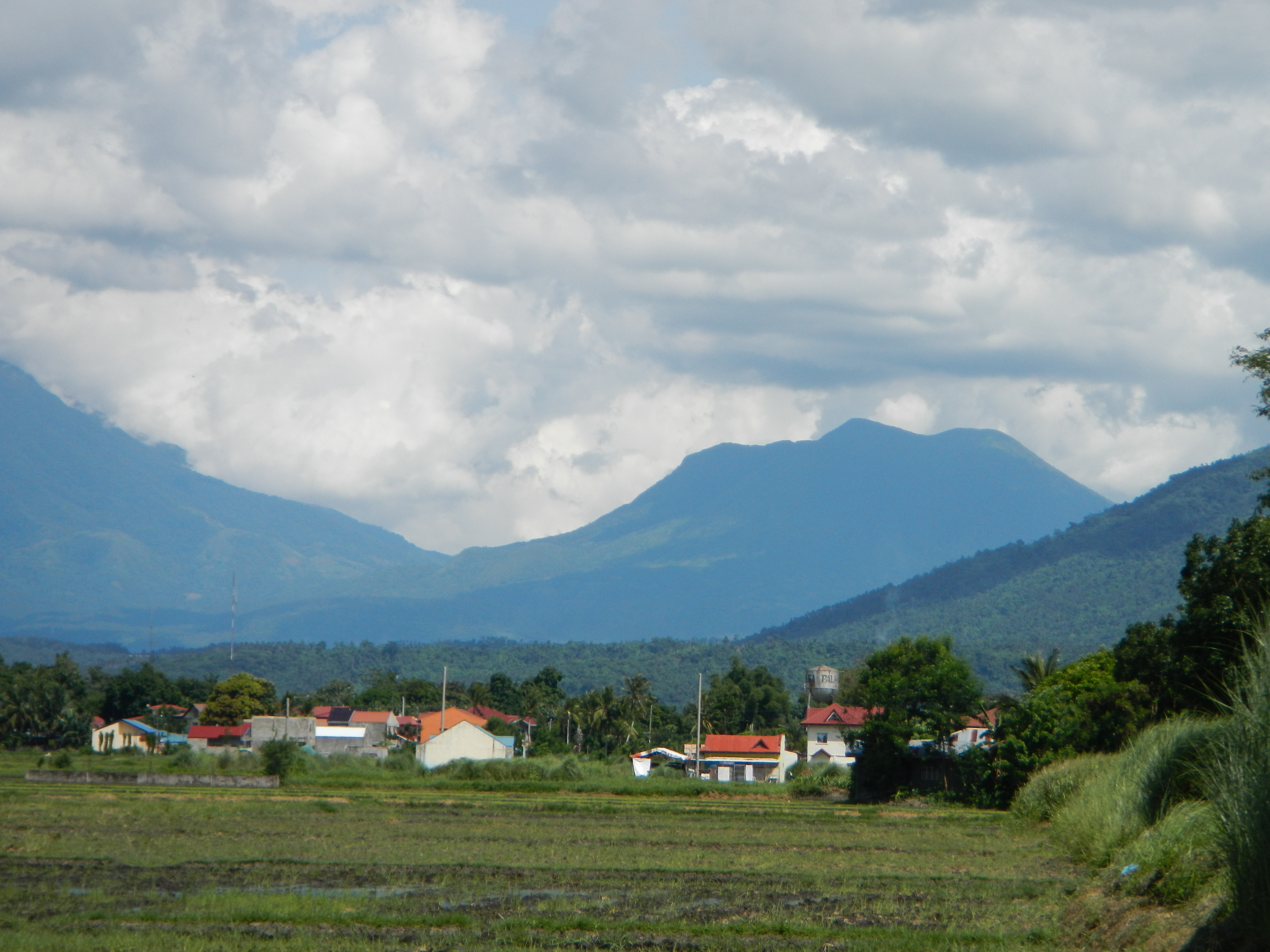 Mount San Cristobal scenic roads, paddy fields and mountain ranges in Barangay San Francisco, Victoria, Laguna 14°12'51"N 121°20'32"E Victoria, Laguna from Calamba–Pagsanjan Road to Bay–Calauan–San Pablo Road Philippine highway network.